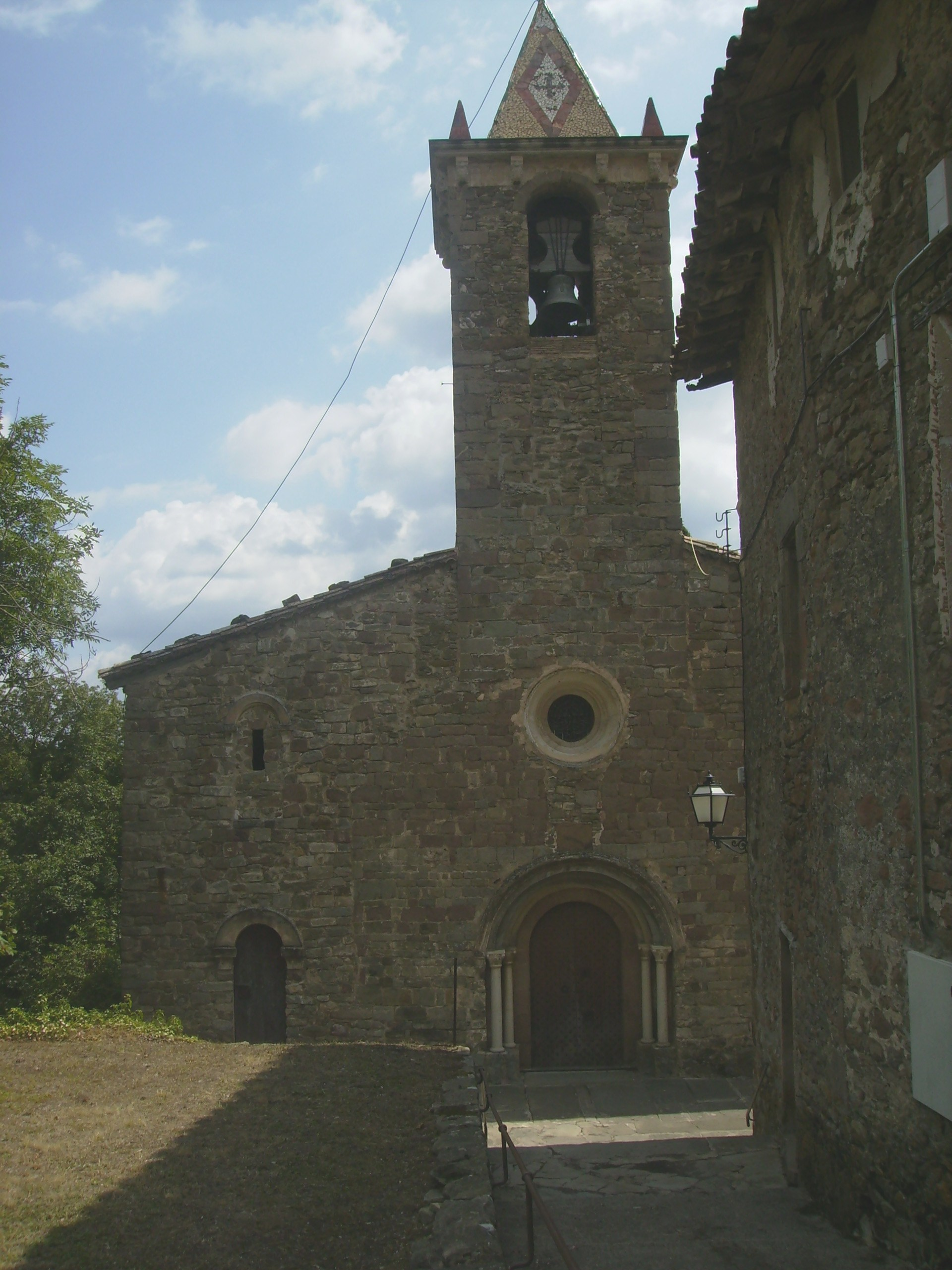 Church in Joanetes (Catalonia) Object location42° 07′ 17.87″ N, 2° 25′ 12.32″ E